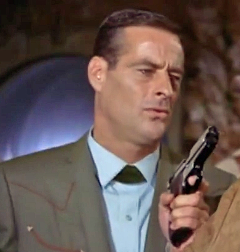 Robert Webber in trailer to "The Silencers" (1966)